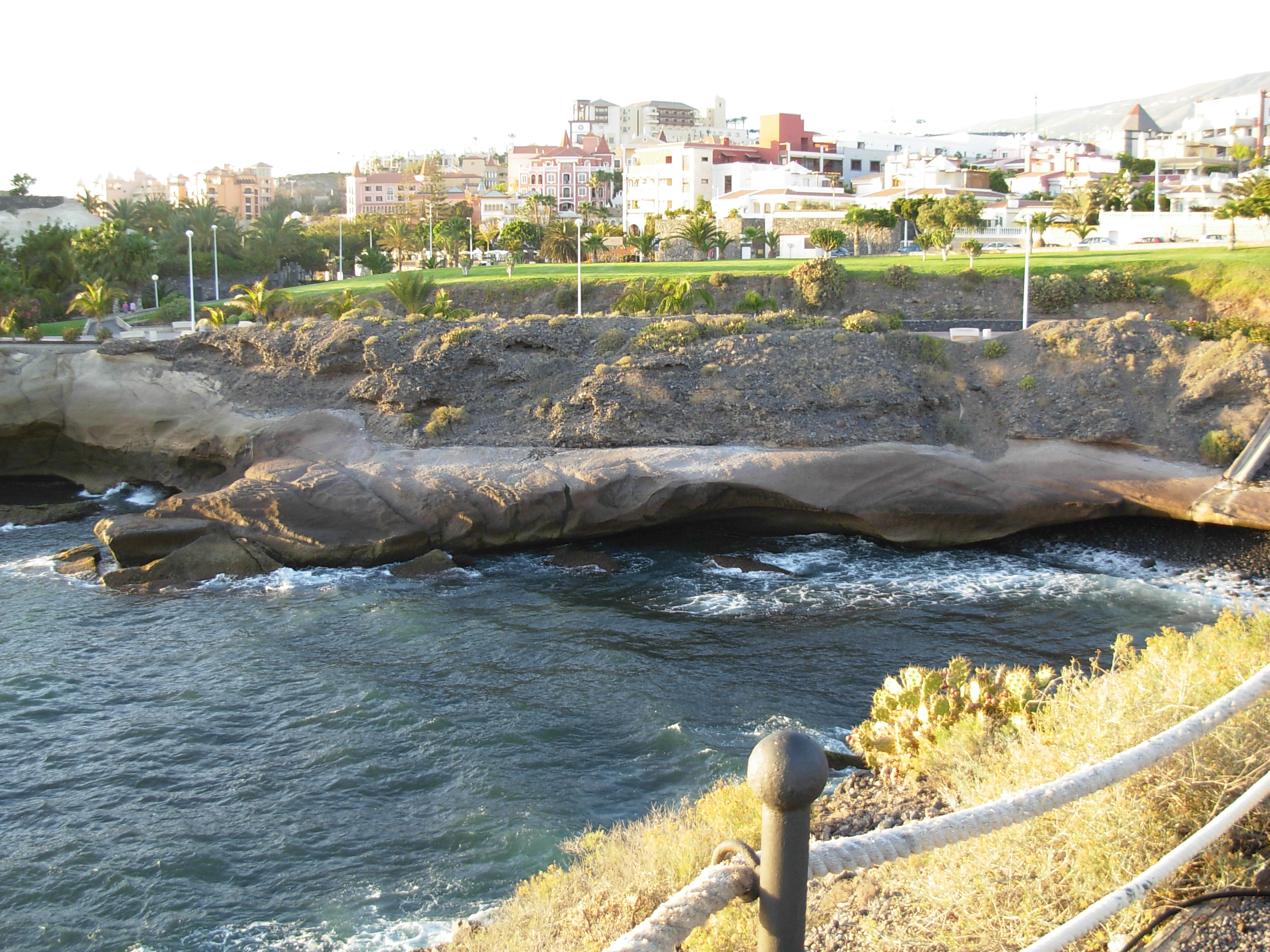 Tenerife - likely Los Christianos or Playa de las Américas. March 2007. Photo by myself.